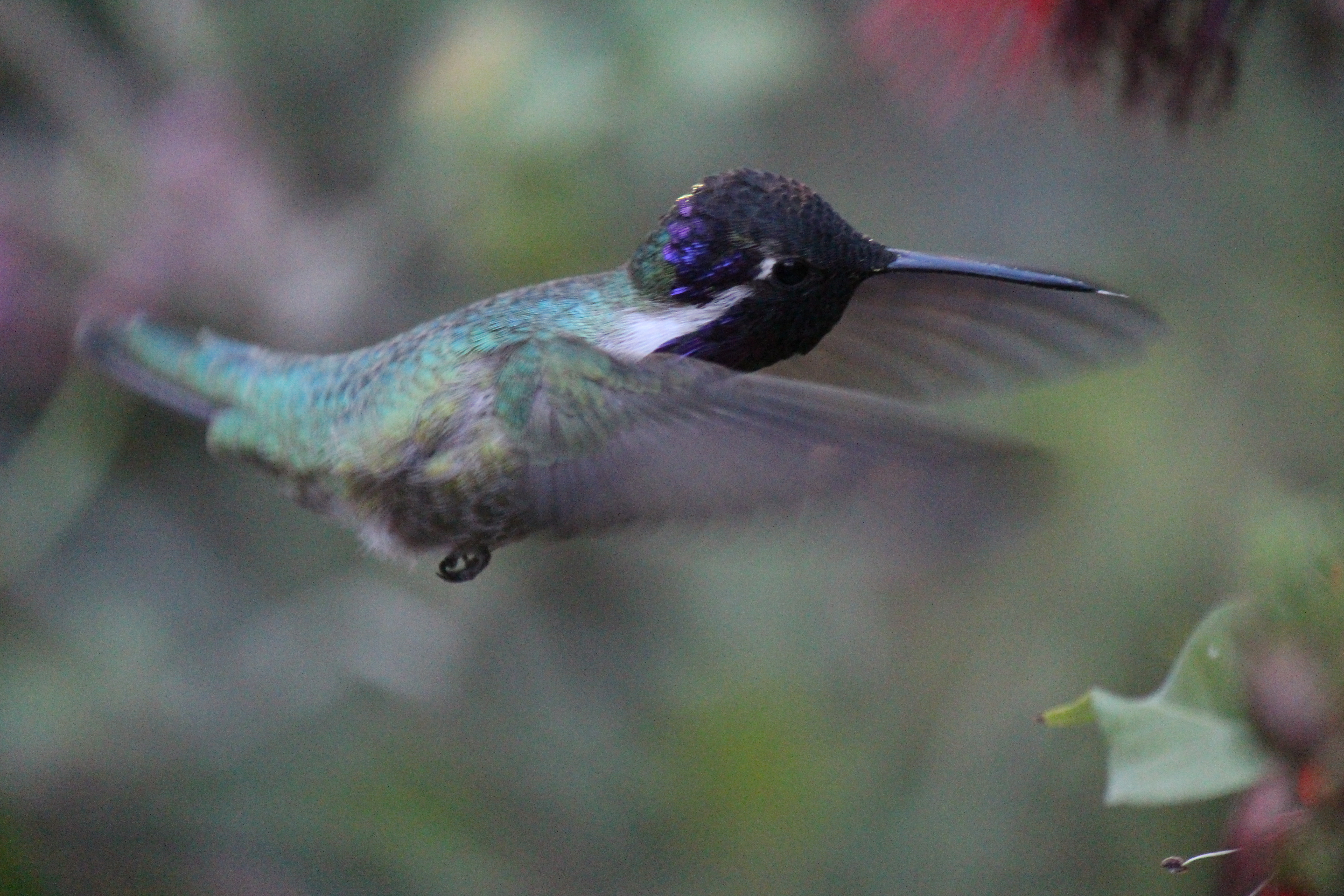 Costa's hummingbird